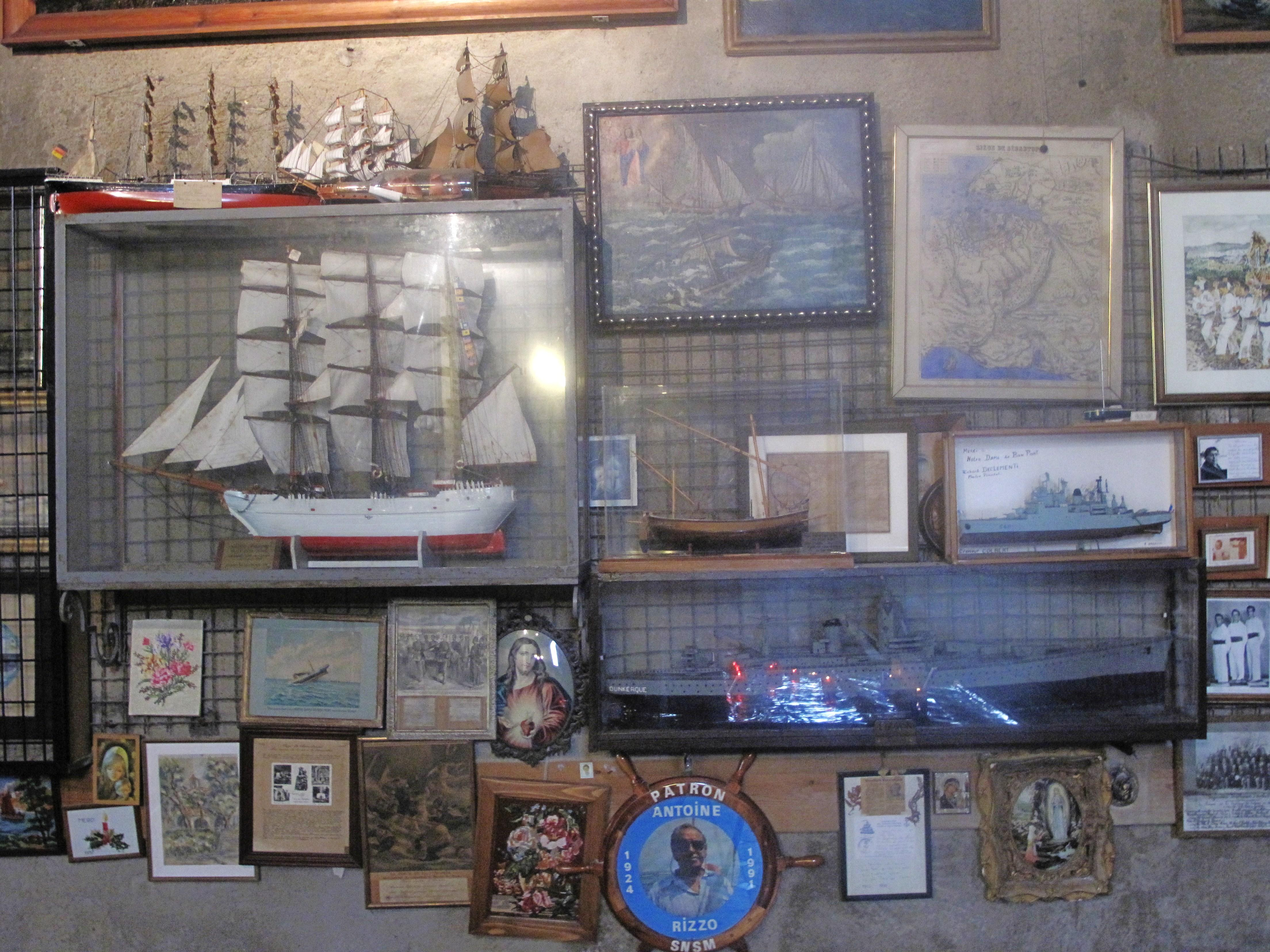 Ex votos in the chapel of Our Lady of la Garoupe, at the cap d'Antibes, Alpes-Maritimes, France